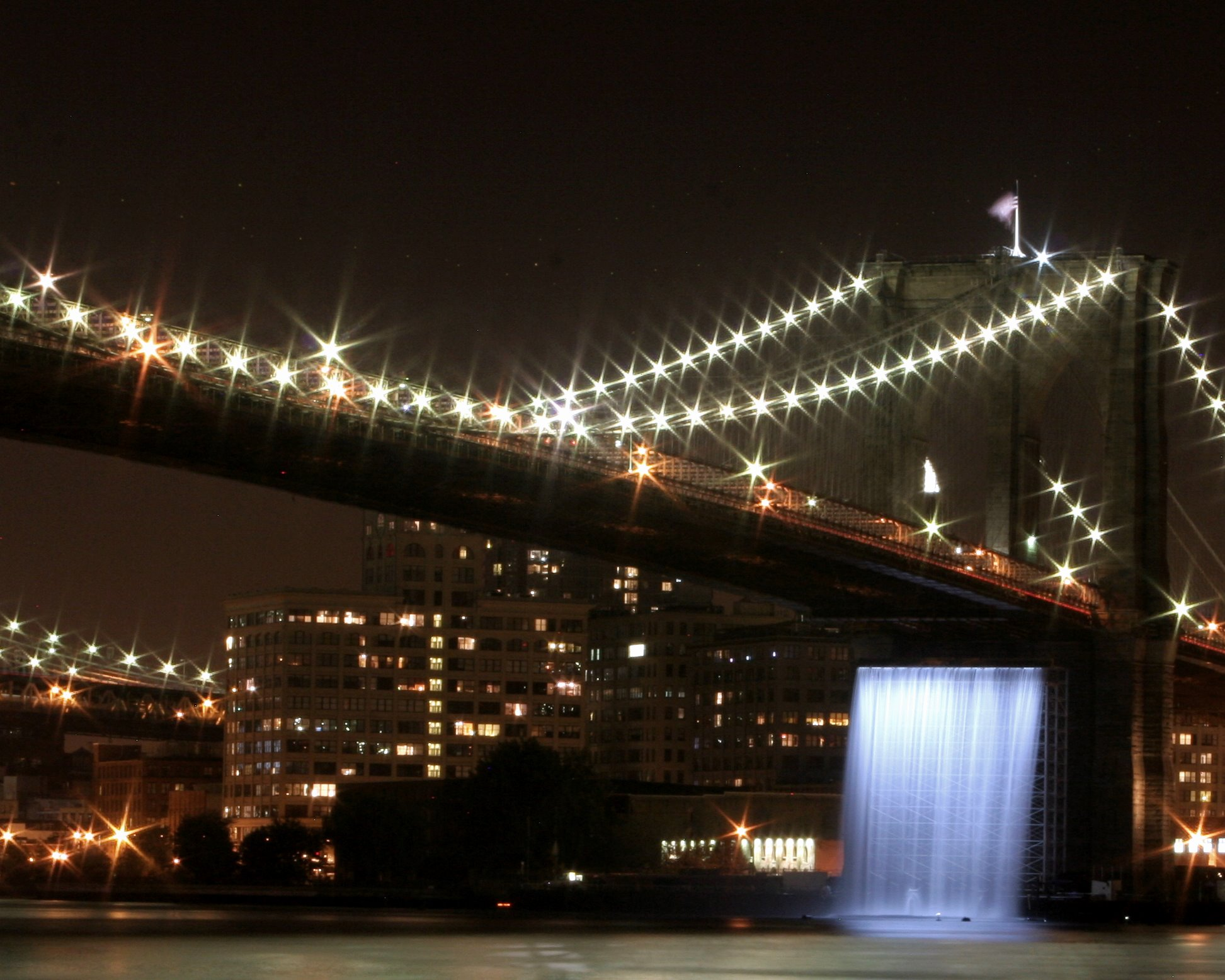 The Waterfalls in New York City taken from near Pier 17 at the South Street Seaport